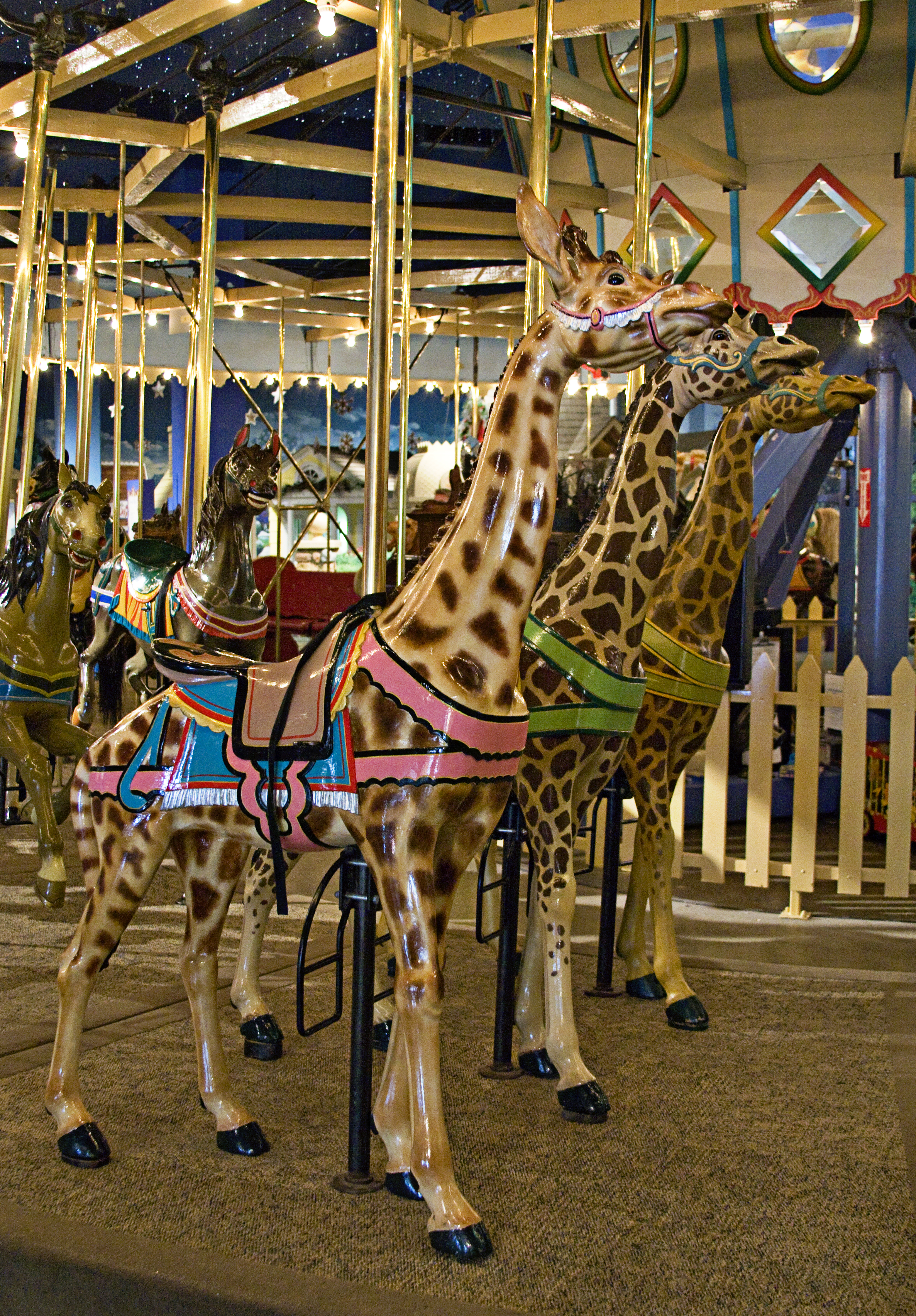 Row of giraffes on the carousel at The Children's Museum of Indianapolis.